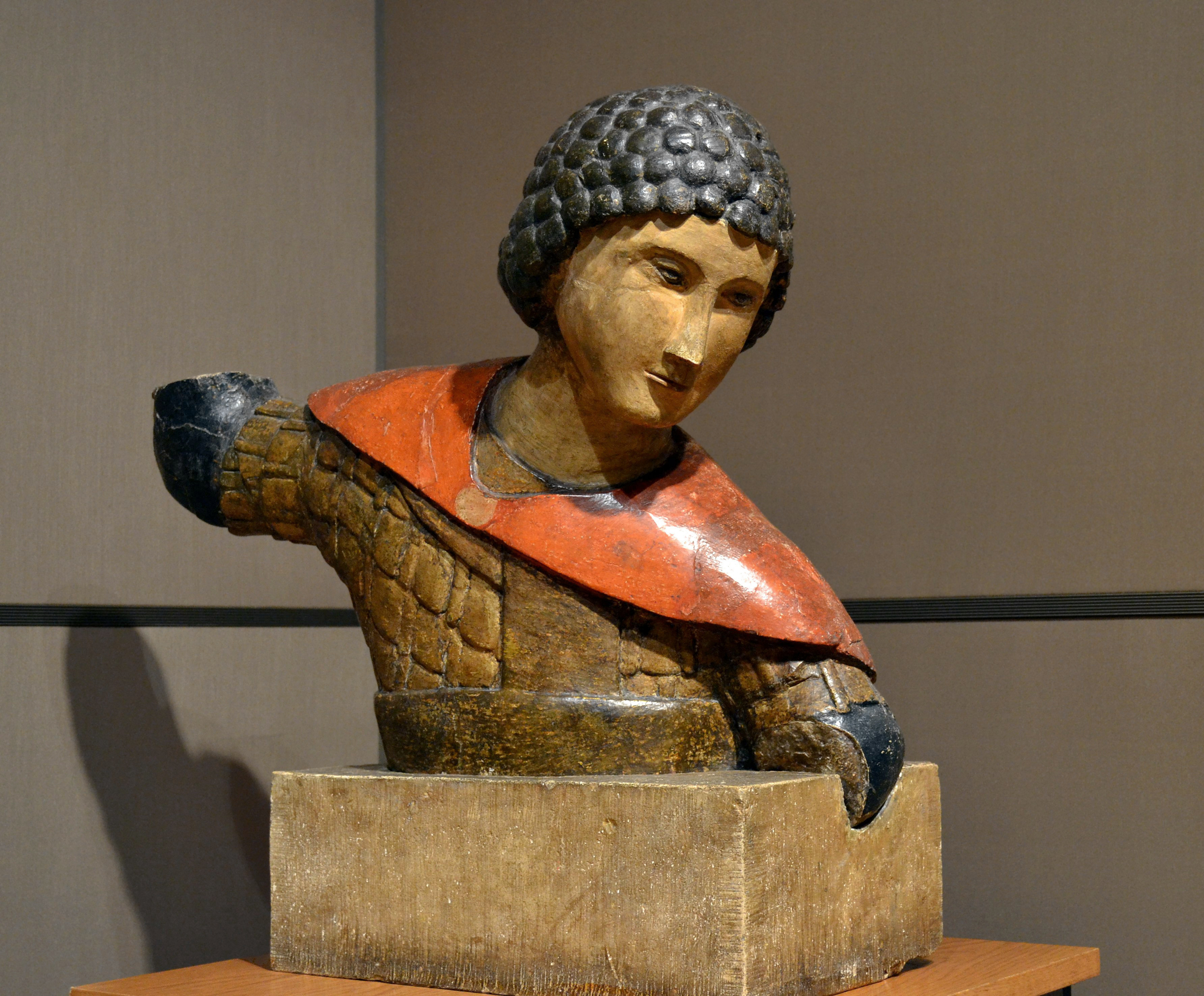 The statue was mounted on the Frolvskaya (Spasskaya) Tower of the Moscow Kremlin. The most part of the sculpture was lost and now only the torso is all that remains of the figure.Russian researchers of 20th century (Nikolay Sobolev, Aleksey Nekrasov, Mikhail Alpatov et al.) believed that the statue was sculpted by Vasili Yermolin; nowadays the version that Yermolin was only the purchaser but not the author of the sculpture is widespread. Probably, the statue was created by masters from Italy.